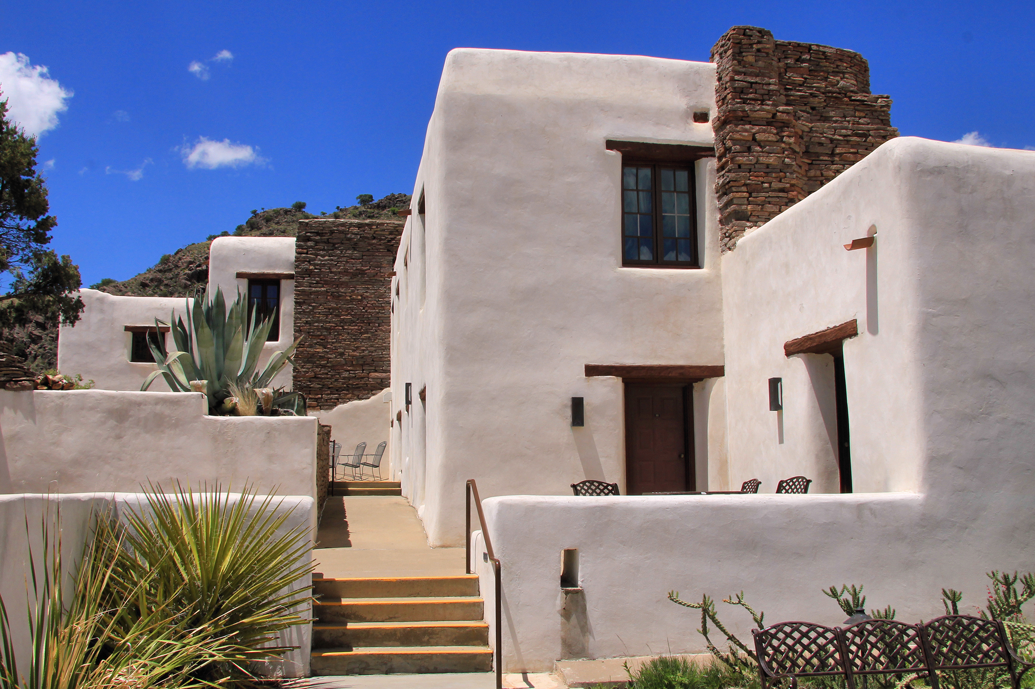 Exterior of the original rooms at Indian Lodge, Davis Mountains State Park, Texas, United States.